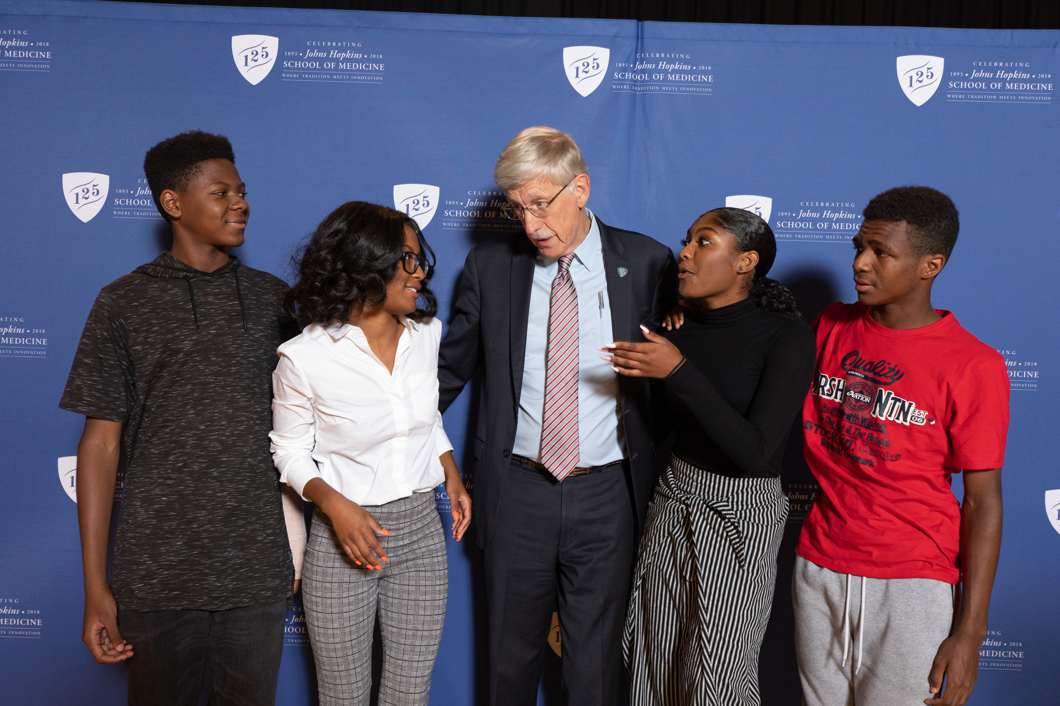 Dr. Francis Collins meets with family members of Henrietta Lacks at Johns Hopkins University in Baltimore where he delivered the keynote address of the Henrietta Lacks Memorial Lecture. From left to right: Devin Lacks, Alyana Rogers, Dr. Francis Collins, Jabrea Rogers, and Dorian Lacks.